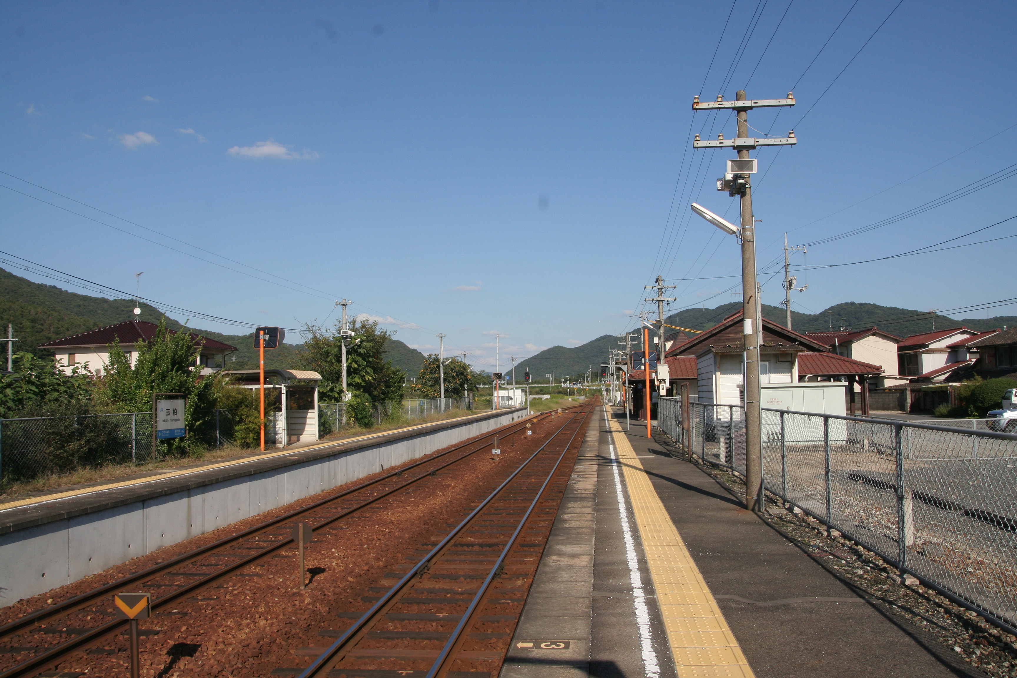 West Japan Railway Tsuyama line Tamagashi station enclosure in Kita-ku, Okayama Japan